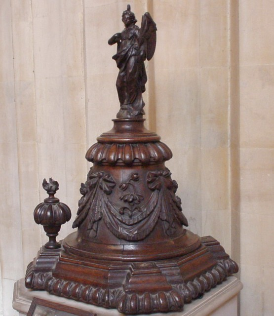 Font cover formerly at Christ Church, Greyfriars, now displayed at St Sepulchre.